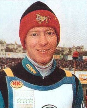 Jason Crump in polish speedway team Stal Gorzow in season 1994.